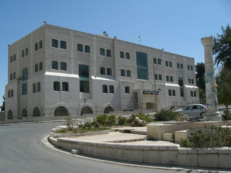 From Bild:Palaestinensischer Legislativrat.jpg on the German Wikipedia where it is Creative Commons licensed.